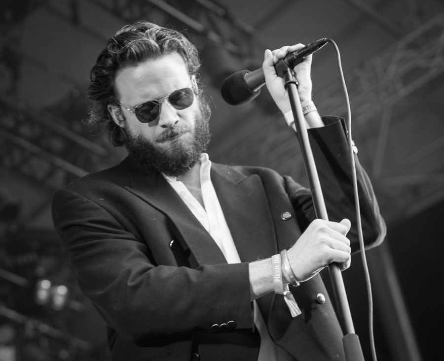 Father John Misty at the main stage in the Vigeland Park. The concert was part of Piknik i Parken and took place on 22. June 2017 in Oslo. Lineup:Joshua Tillman (guitar / vocal)Unidentified (keyboard)Unidentified (bass guitar)Unidentified (guitar)Unidentified (guitar)Unidentified (drums)Unidentified (keyboard)